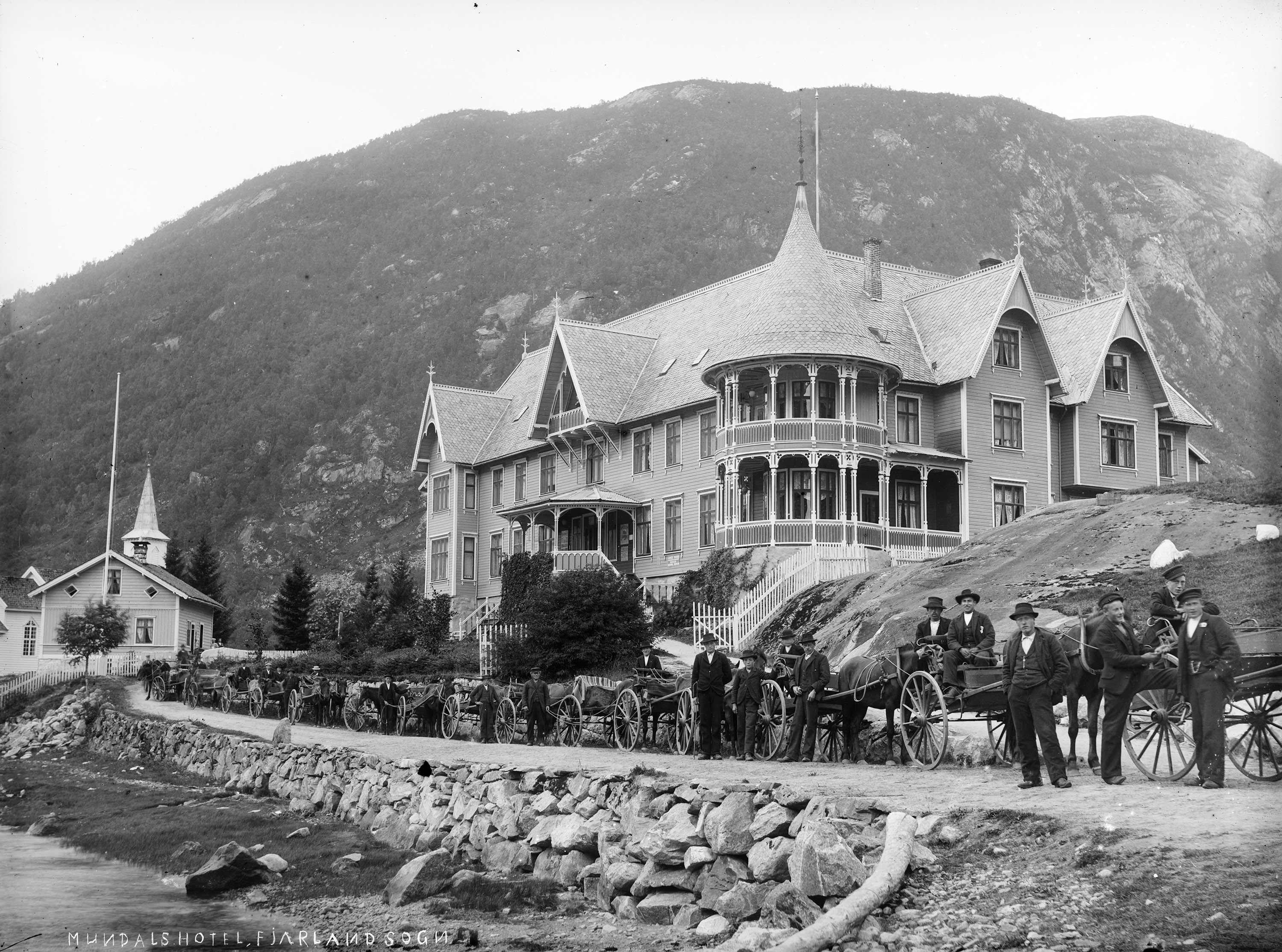 SFFf-100319.181259 Original caption: "Mundals Hotel, Fjærland, Sogn". Hotel Mundal by the Fjærlandsfjord. The hotel was built in 1891 by the Mundal family. Architect Peter A. Blix designed the building. In Mundal the distance from the fjord to the surrounding mountains and glaciers is short. Consequently, the hotel was, and is, popular amongst artists, hikers and other tourists.